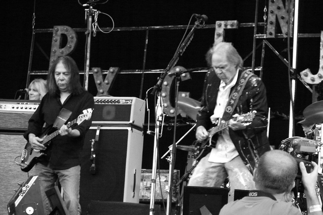 Neil Young (right) and Rick Rosas (left).